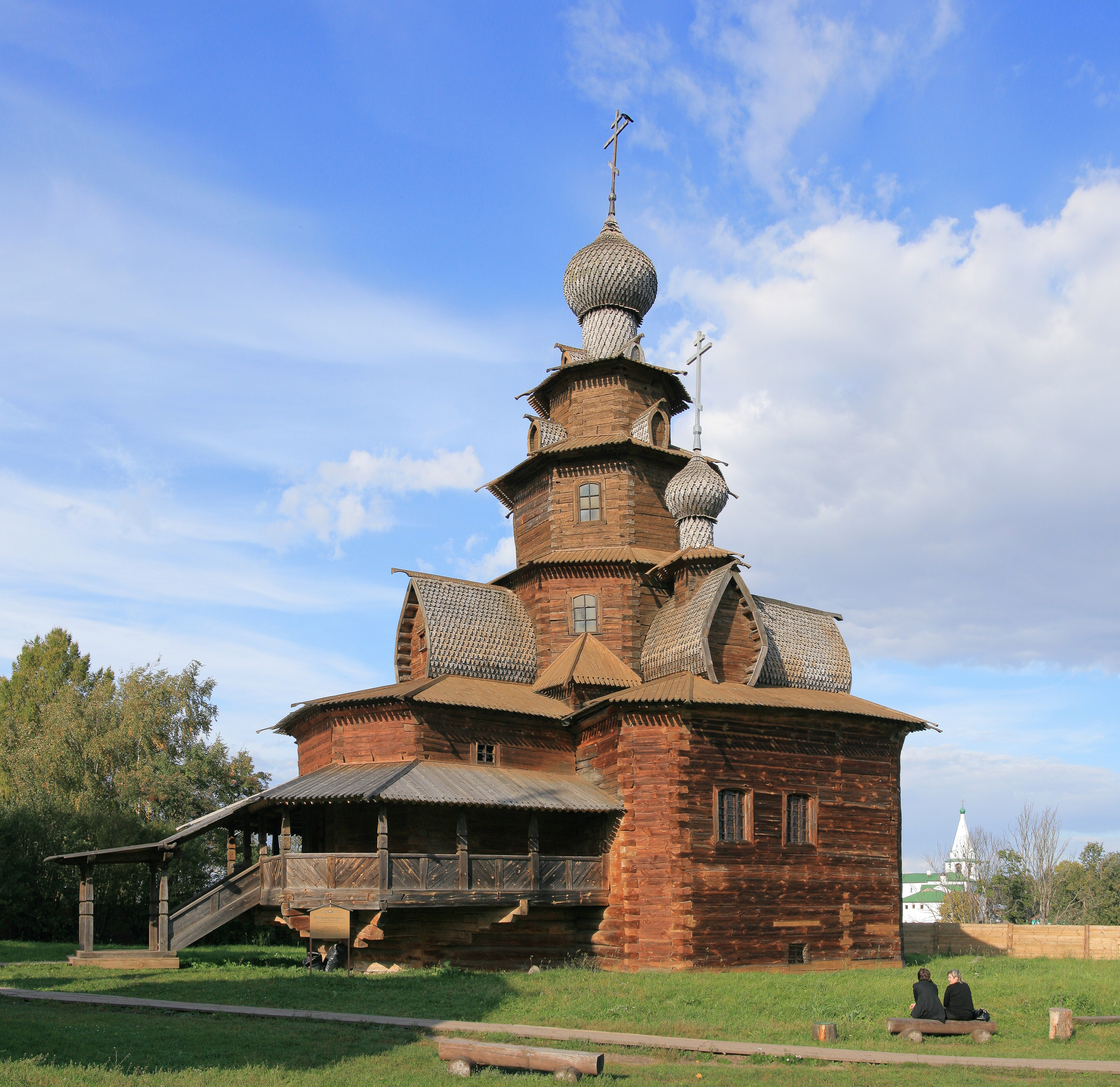 Church of the Transfiguration from Kozlyatievo (Suzdal), 1756